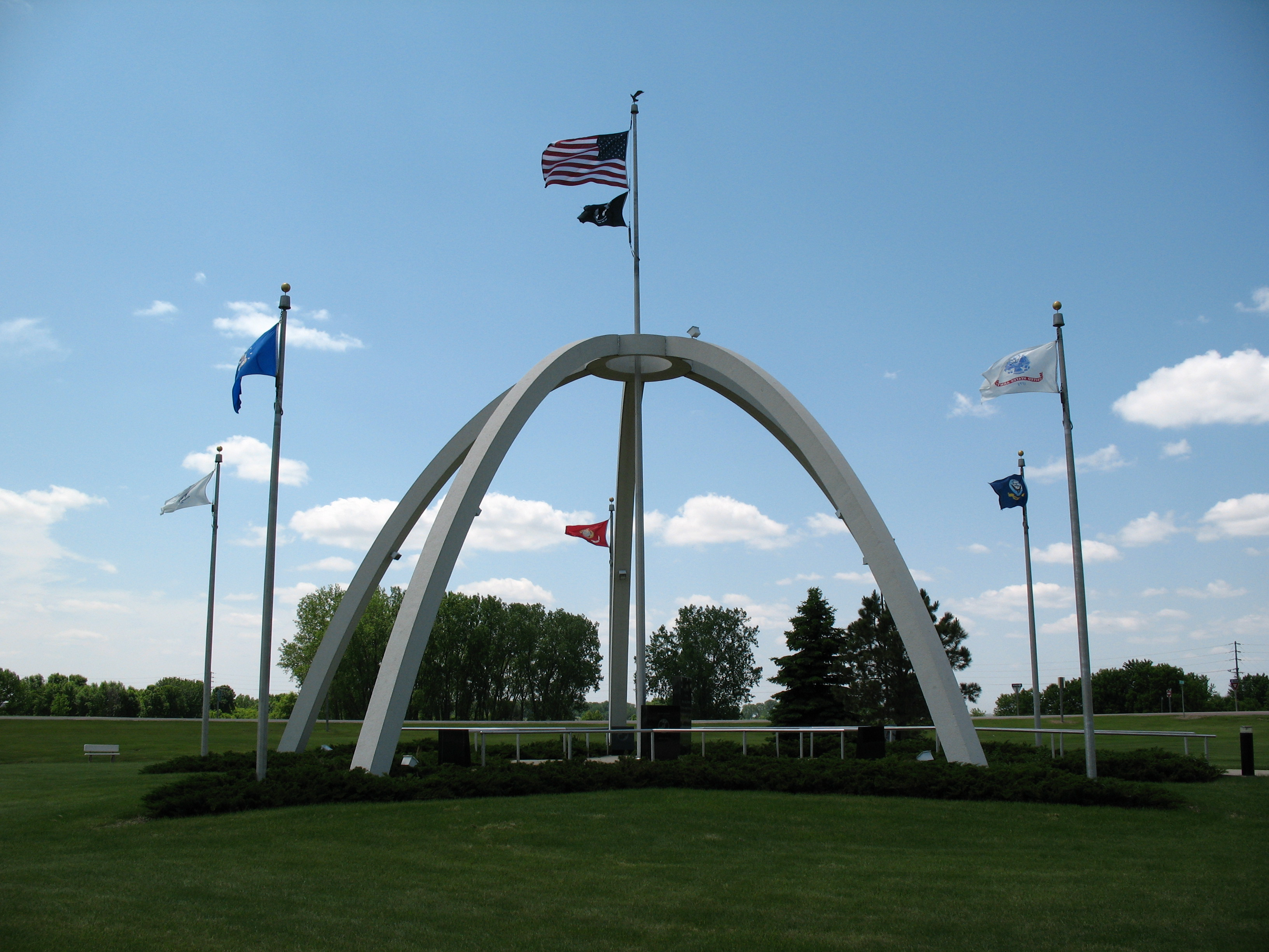 The veteran's memorial in Brookings, SD.